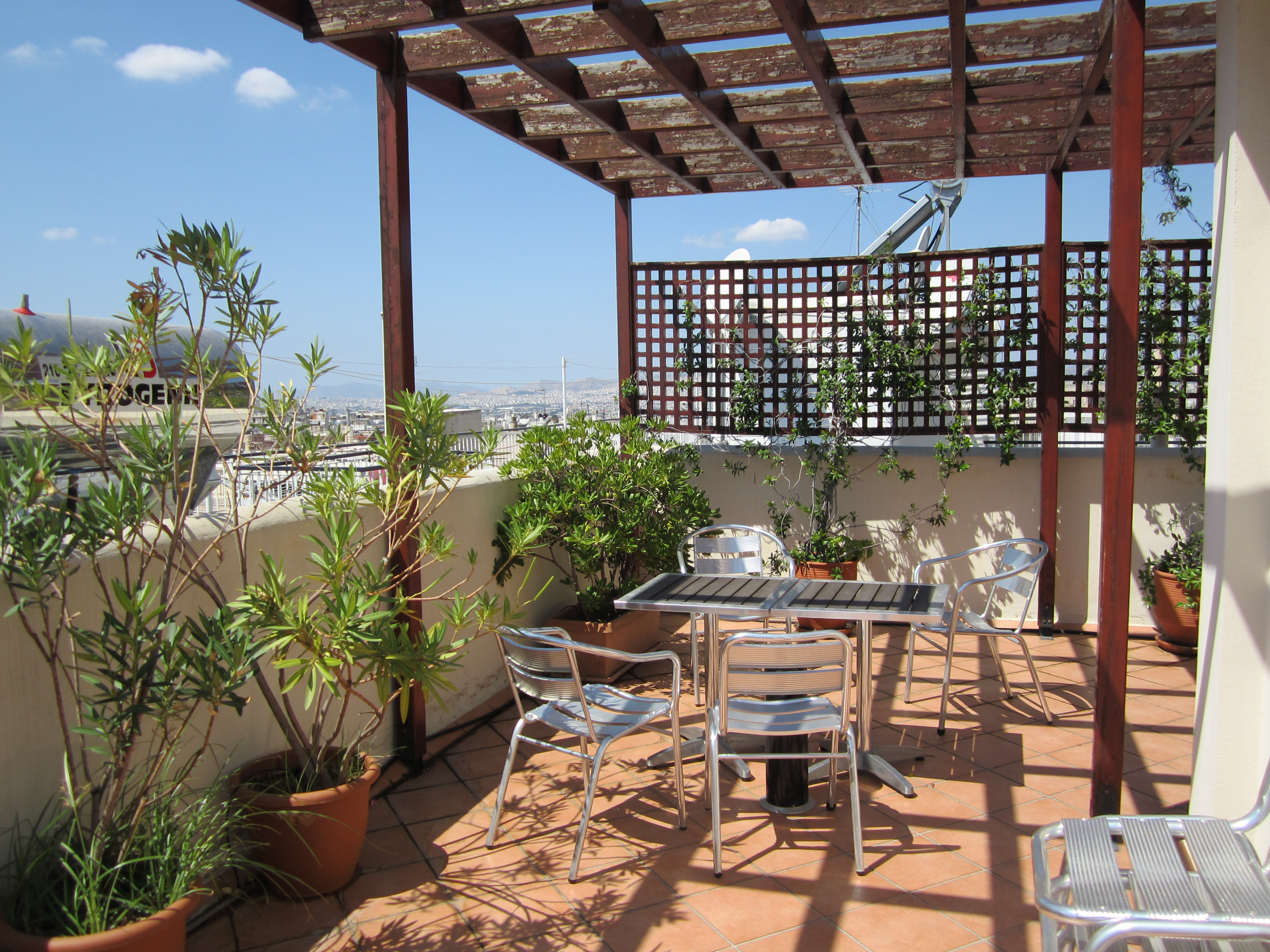 Koroneos building of the Finnish Institute at Athens. Roof terrace.